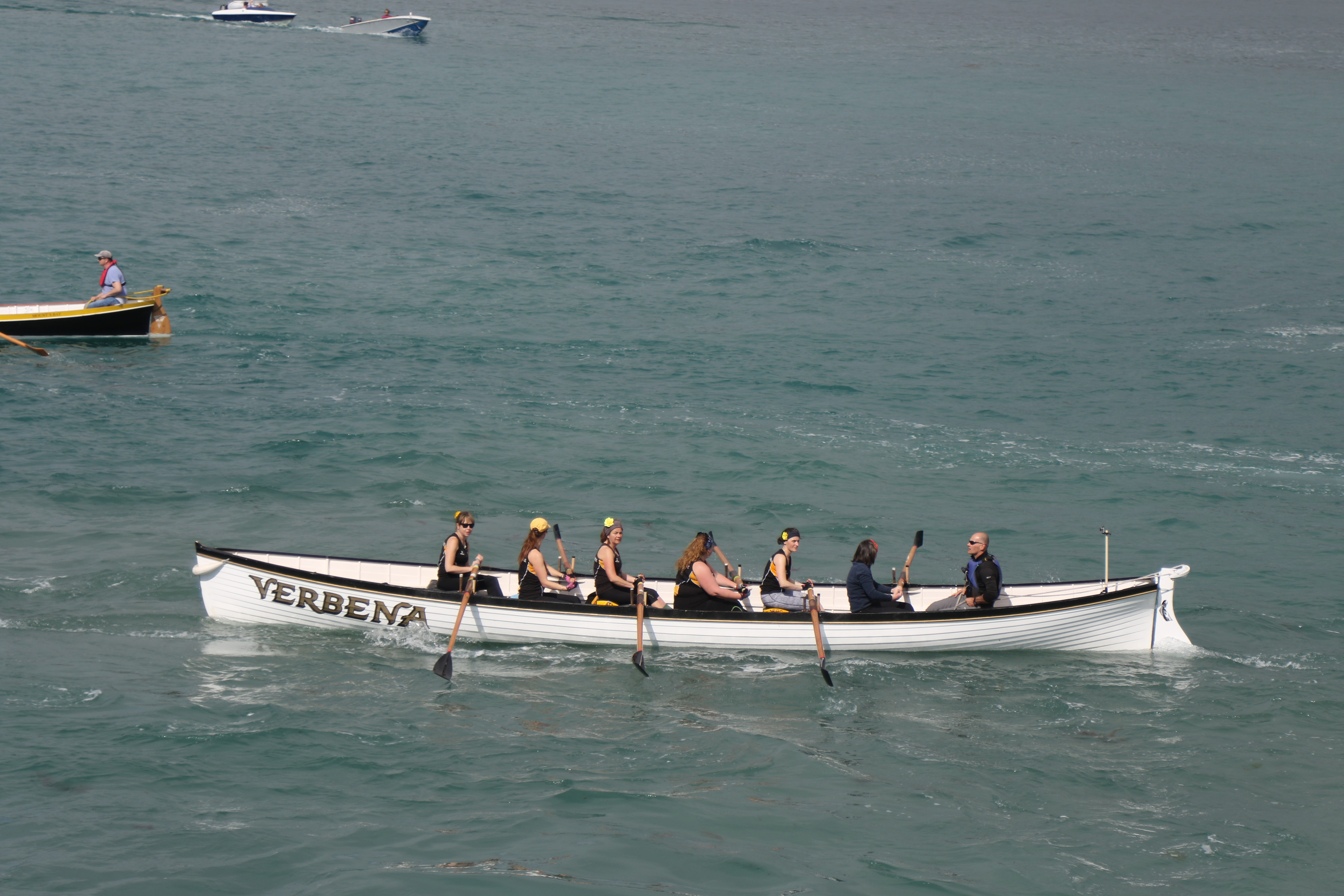 At the World Pilot Gig Championships